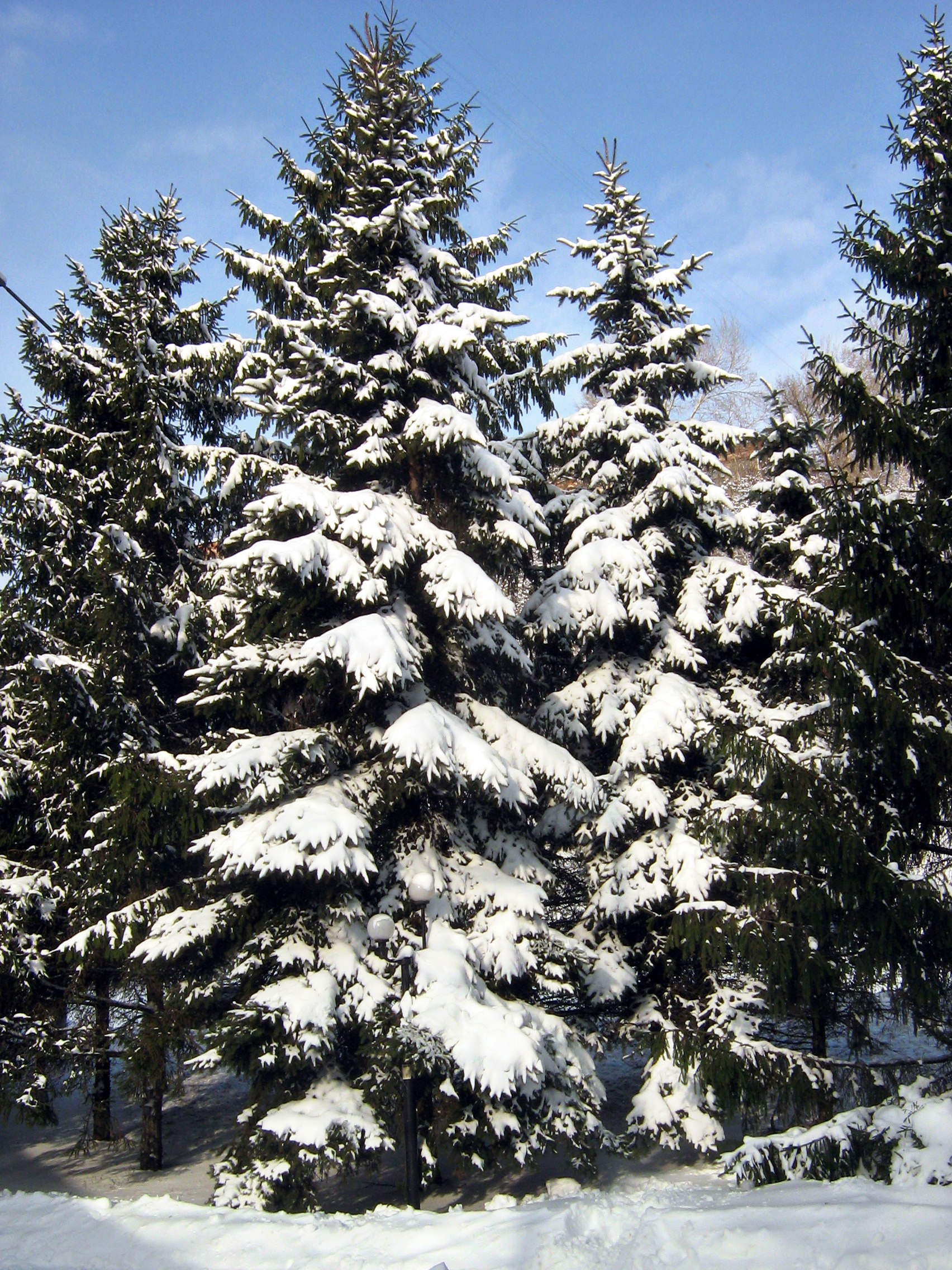 Winter in Kharkov. February 2010.